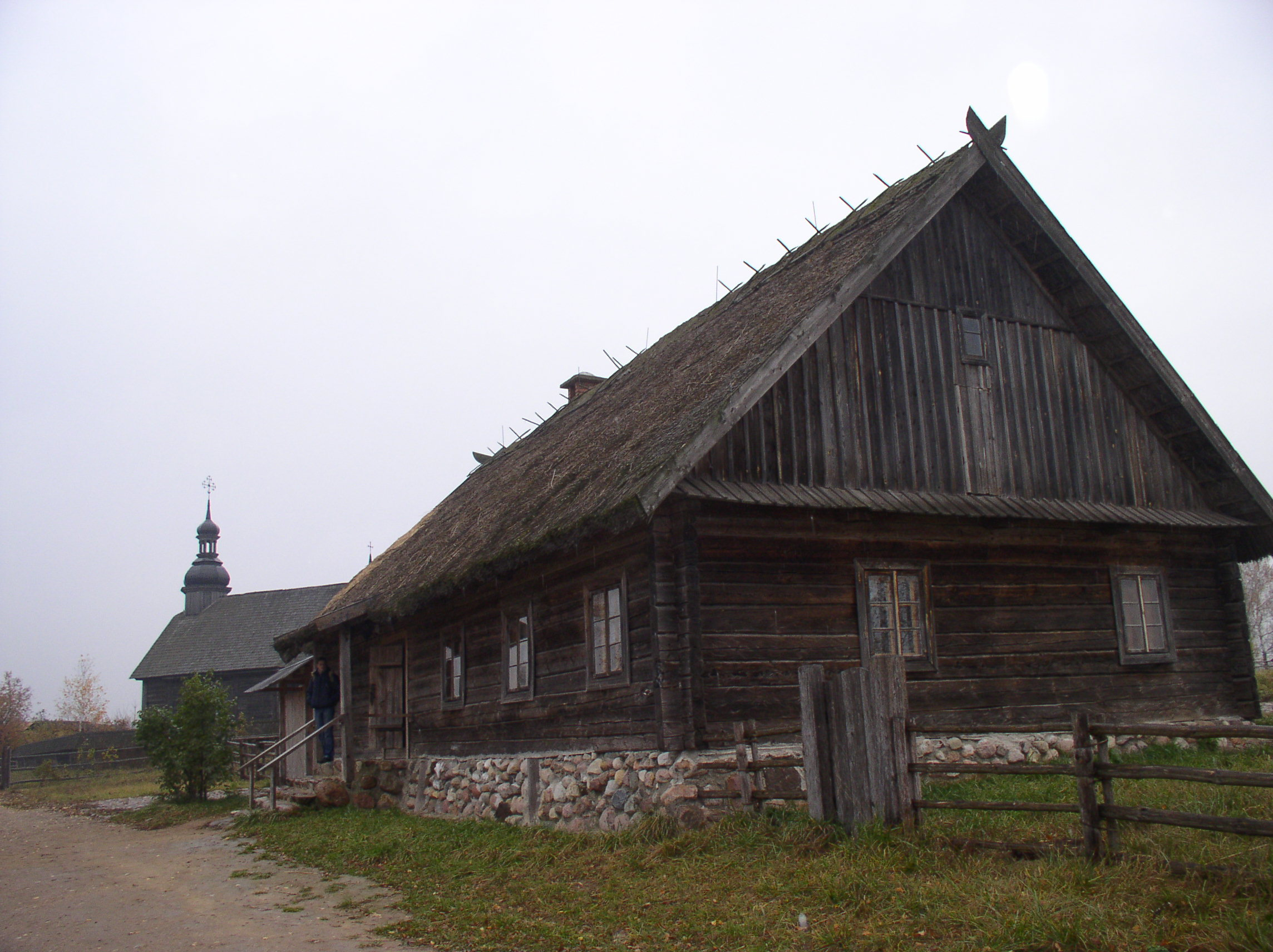 House from Dnieper Region. State museum of folk architecture and life, Belarus.